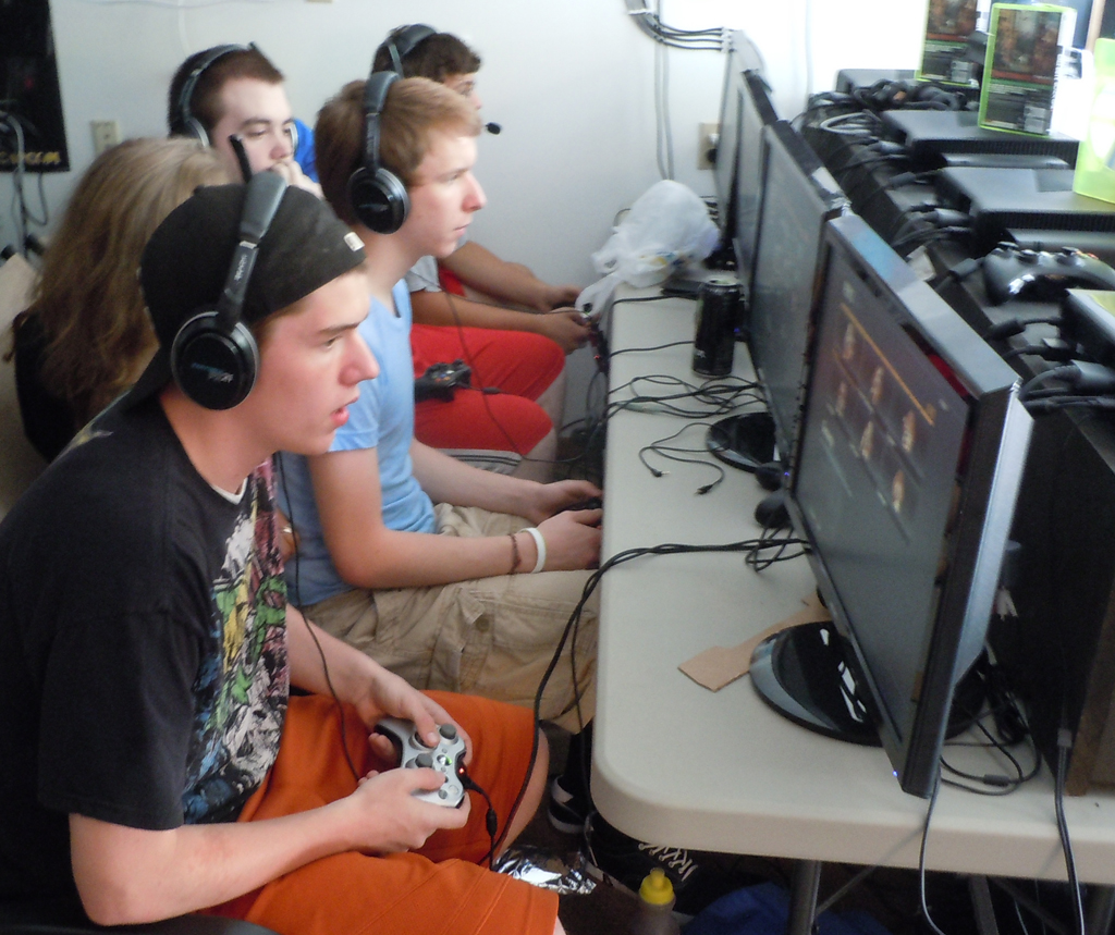 At GameOn Party Planners in Pittsburgh, Pennsylvania, USA